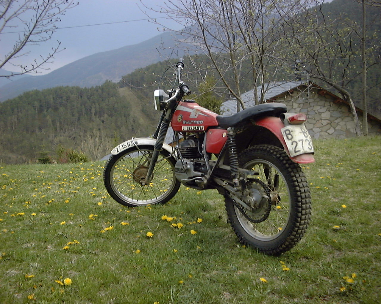 A Bultaco Sherpa T 74cc from 1977